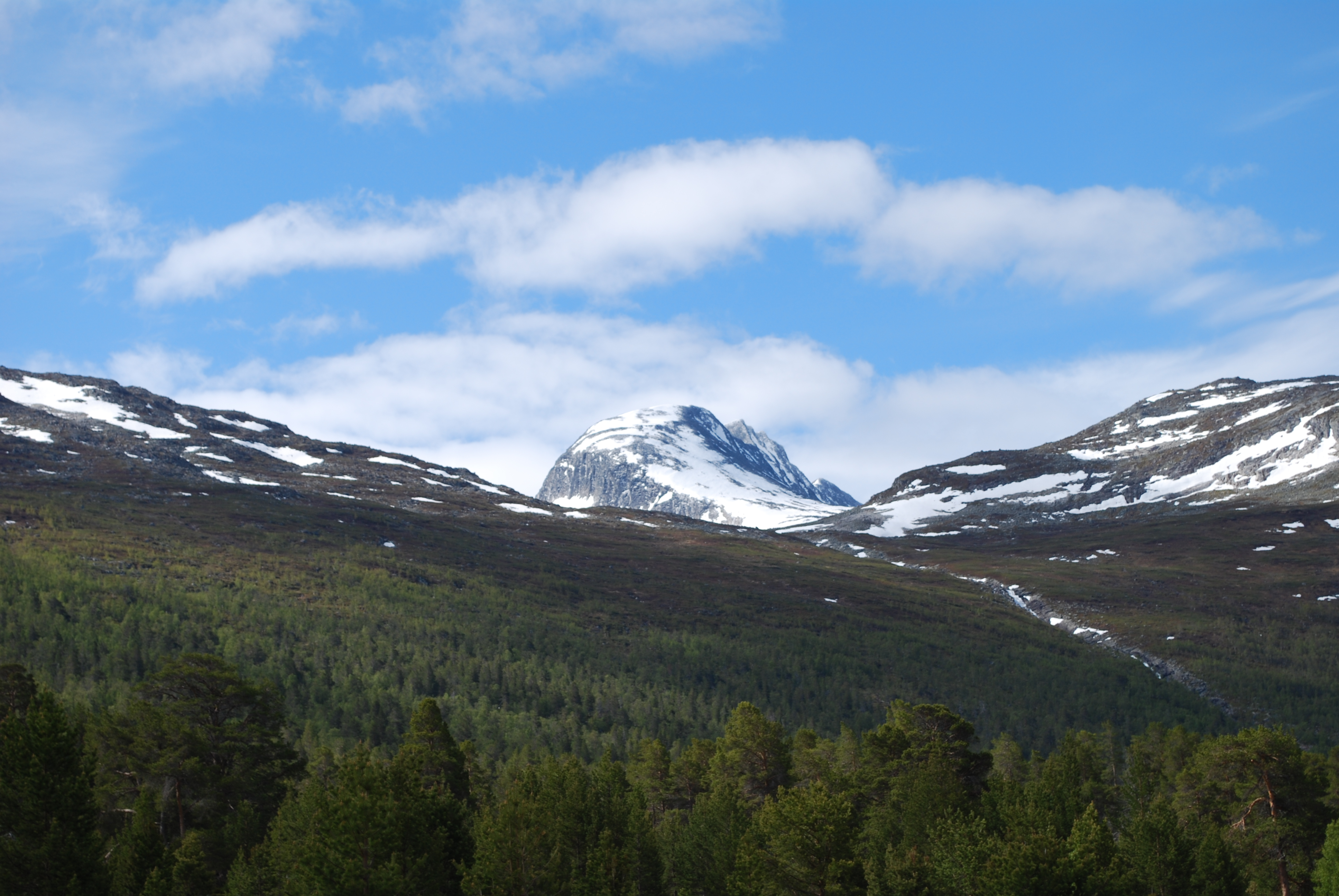 Tverrådalskyrkja 2088 meters in Breheimen, situated at the border of Luster and Skjåk in Norway. The river is Tverråi, from where the mountain has its name.